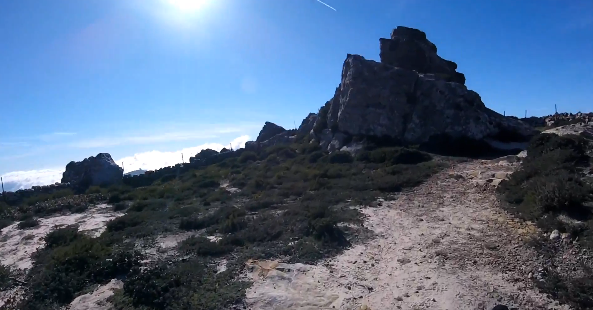 Cima del pico Aljibe en Enero de 2018.